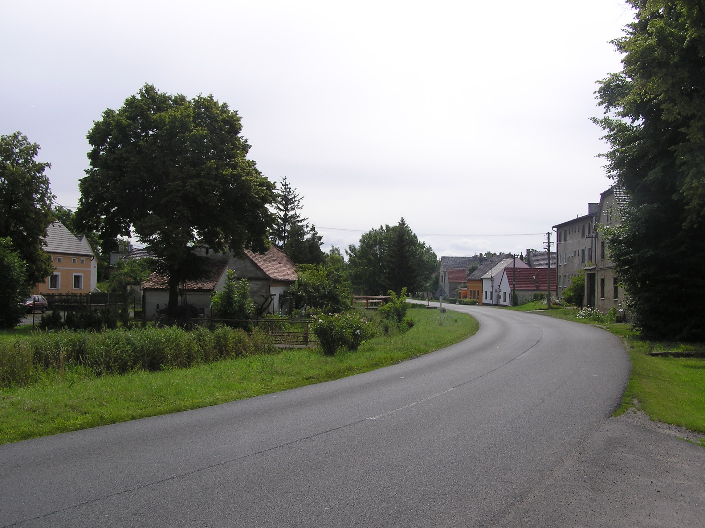 Vilage square in Hnojnice